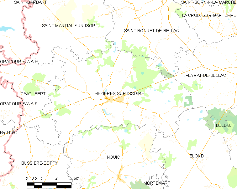 Map of French municipality Mézières-sur-Issoire